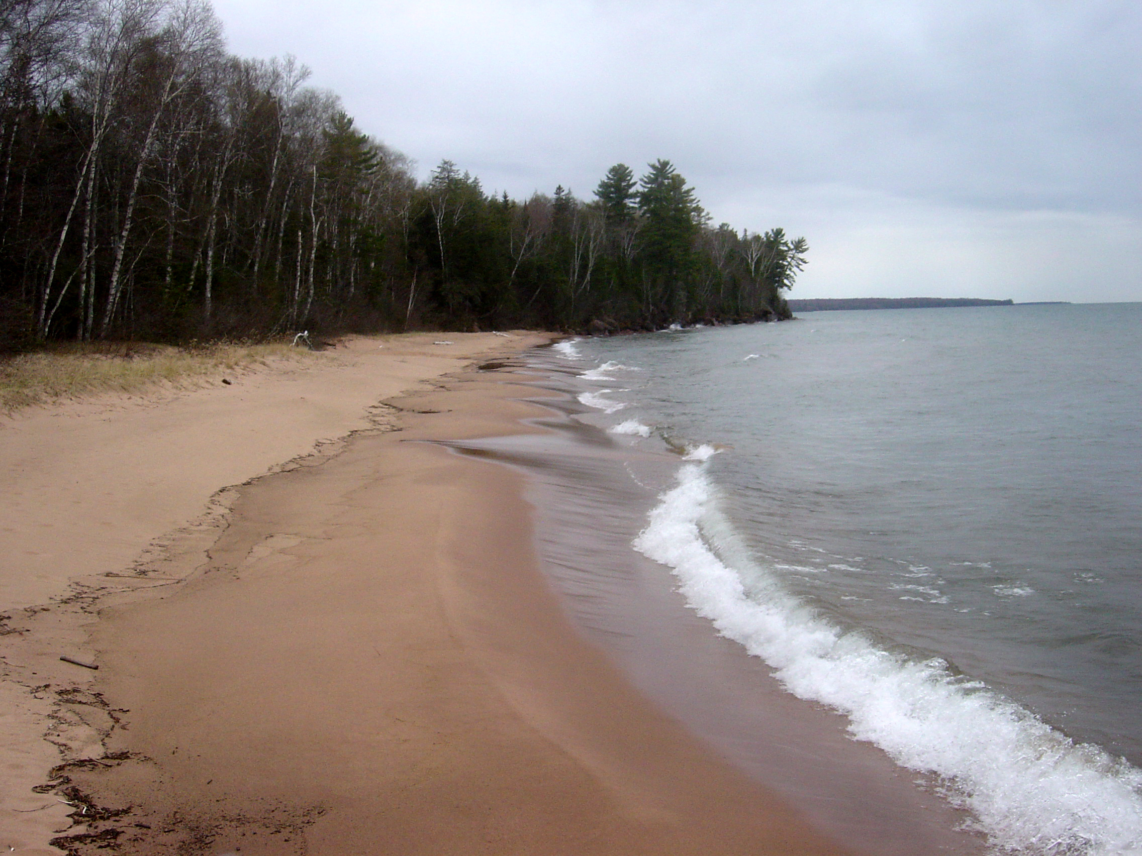 A sandy beach at the Little Sand Bay Visitor Center on the mainland of the Apostle Islands National Lakeshore